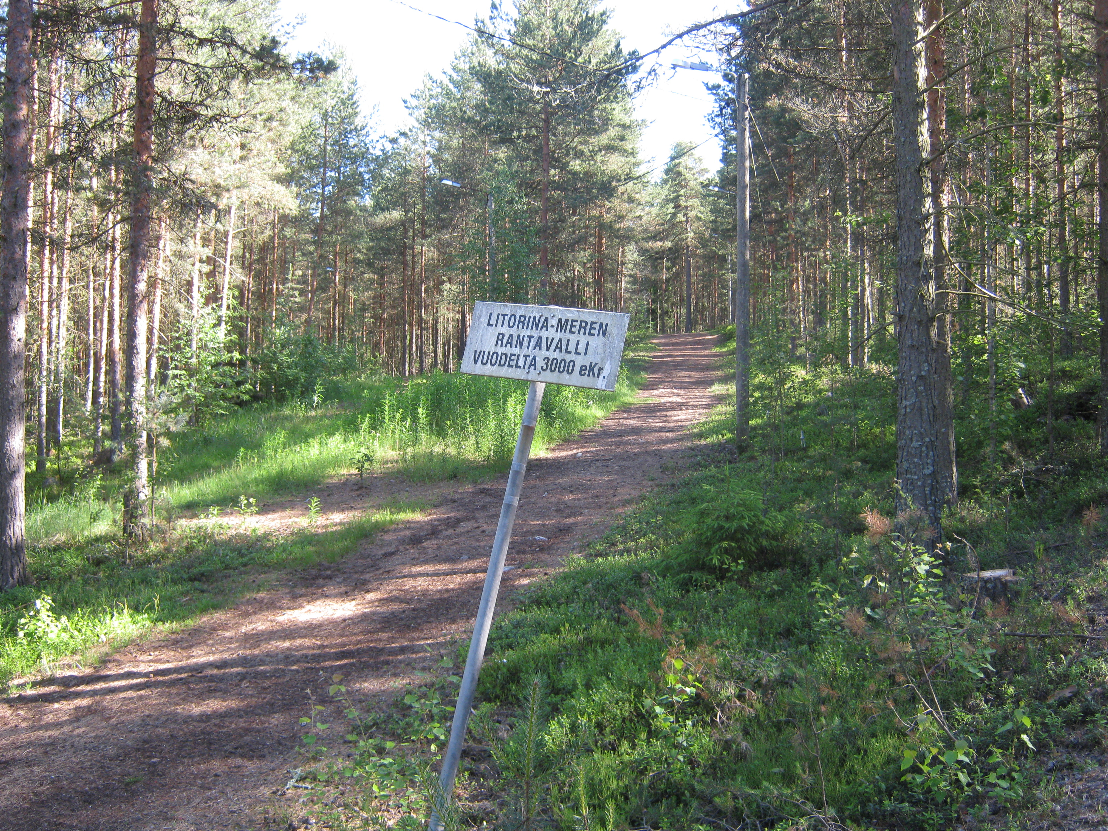 Ancient sea-bank of Littorian Sea (~3,000 B.C.) at Hiittenharju, Harjavalta, Finland.